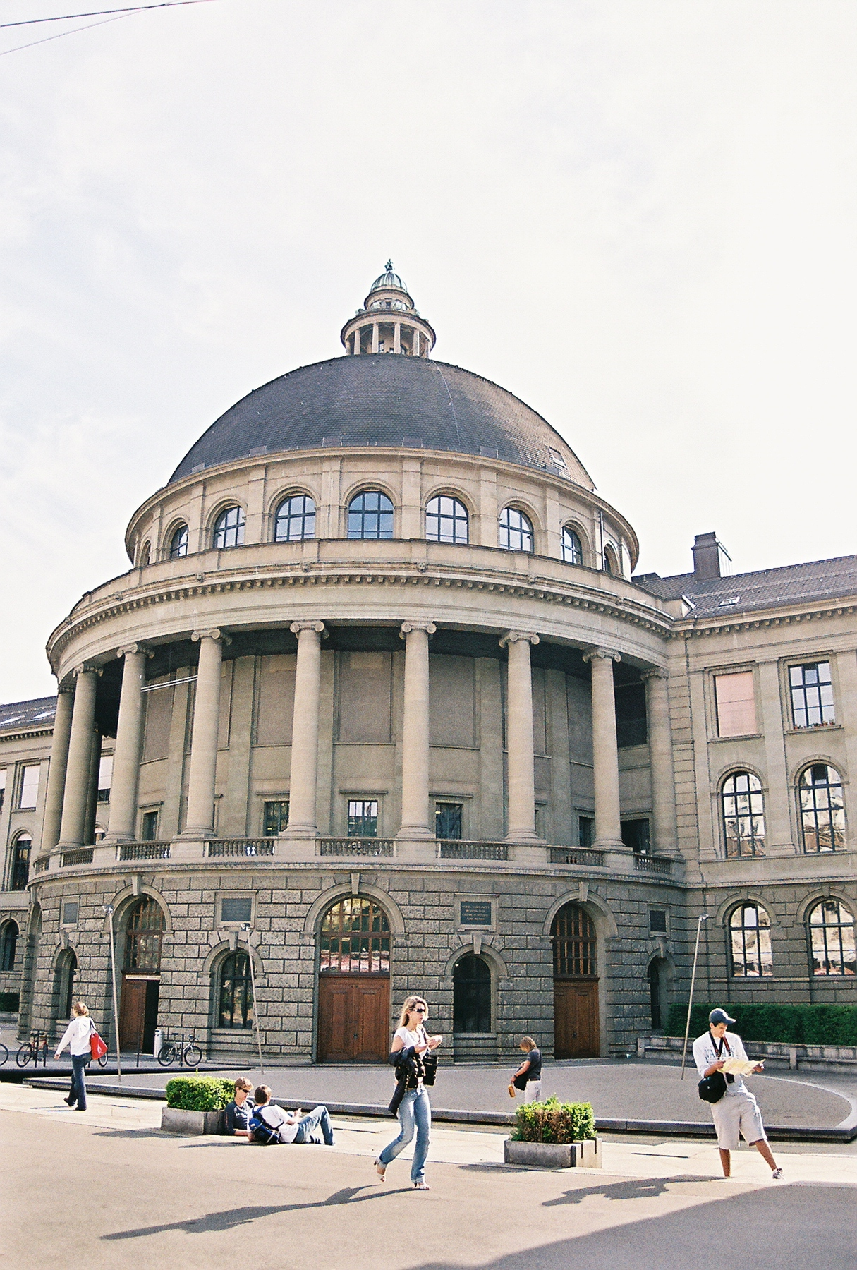 The ETH main entrance facing the road